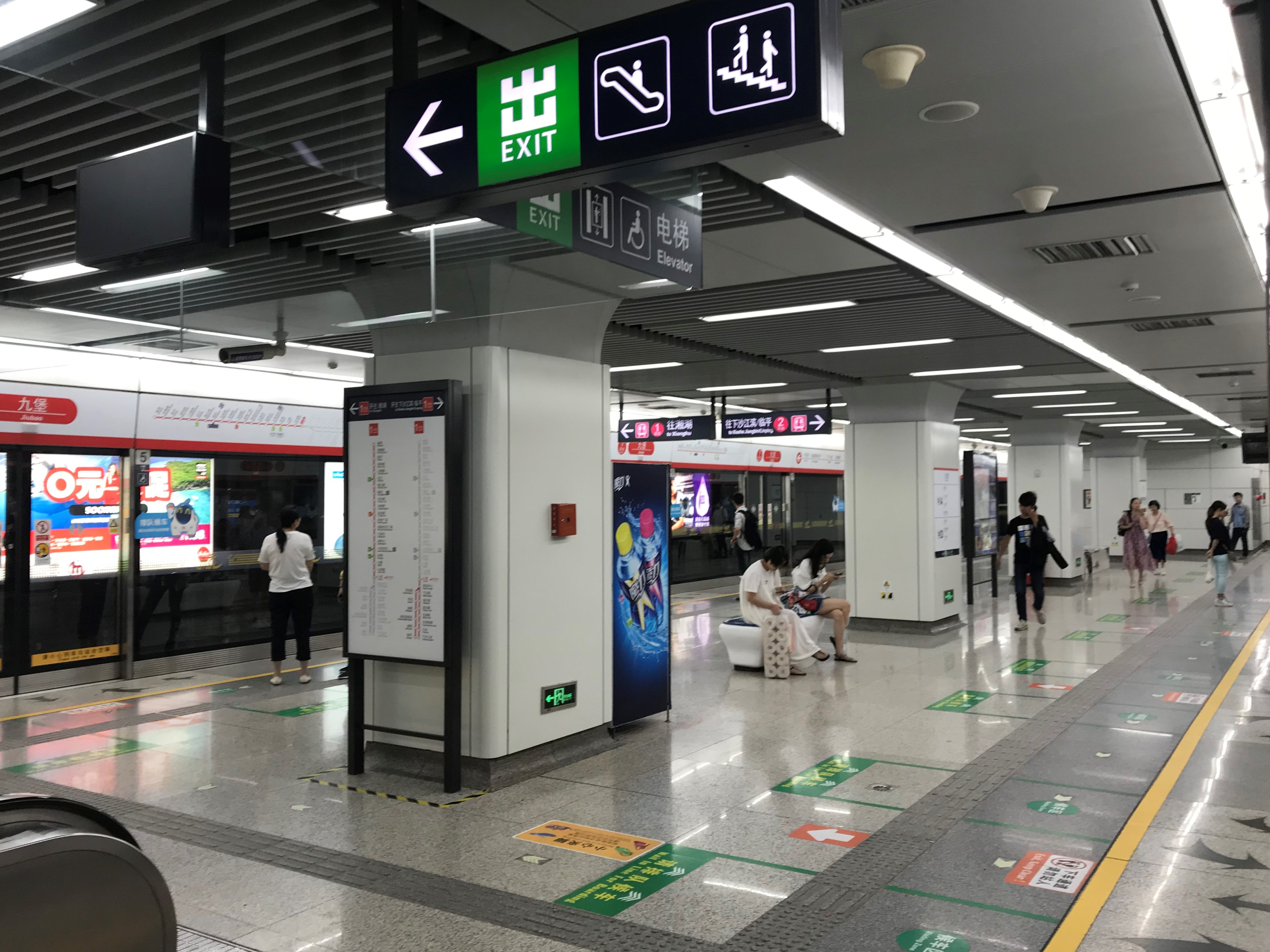 201806 Jiubao Station